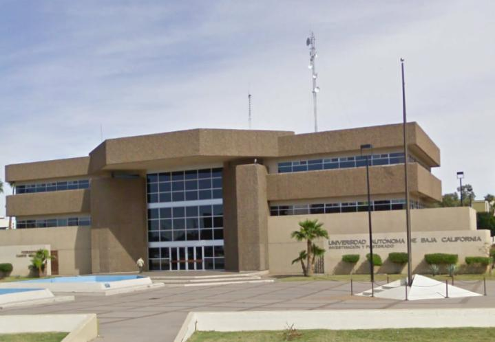 Main Entrance to UABC Mexicali Campus